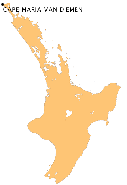 Location map of Cape Maria van Diemen, Far North, Northland, North Island, New Zealand